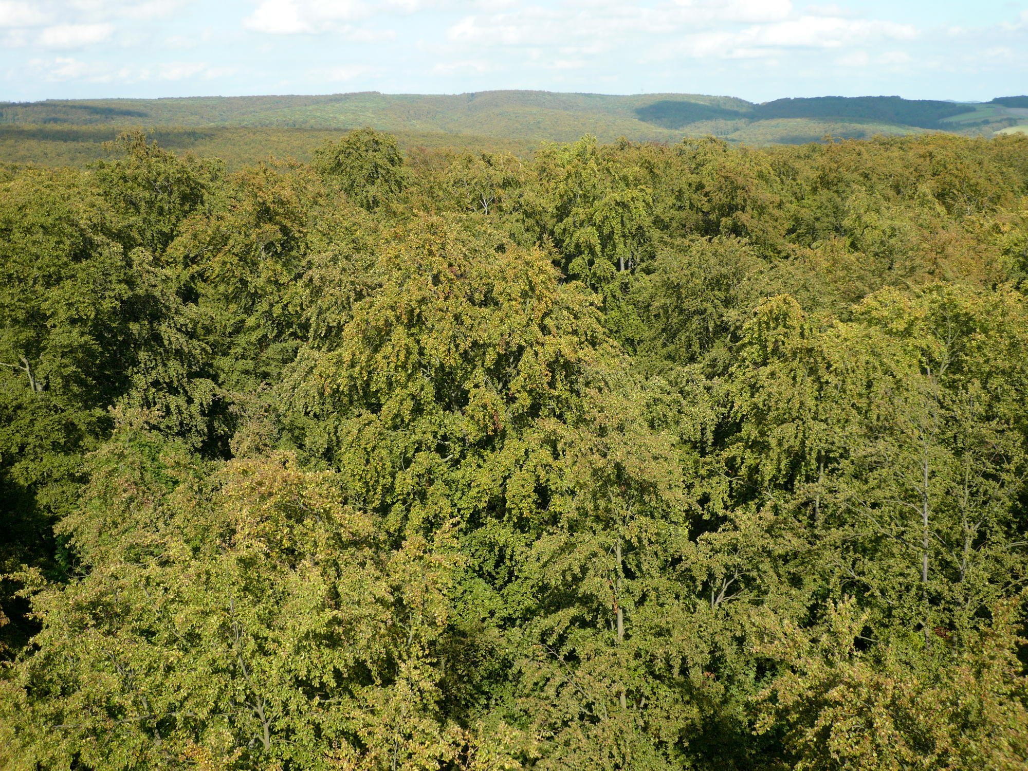 Forest near Alfeld (Mittelfranken)